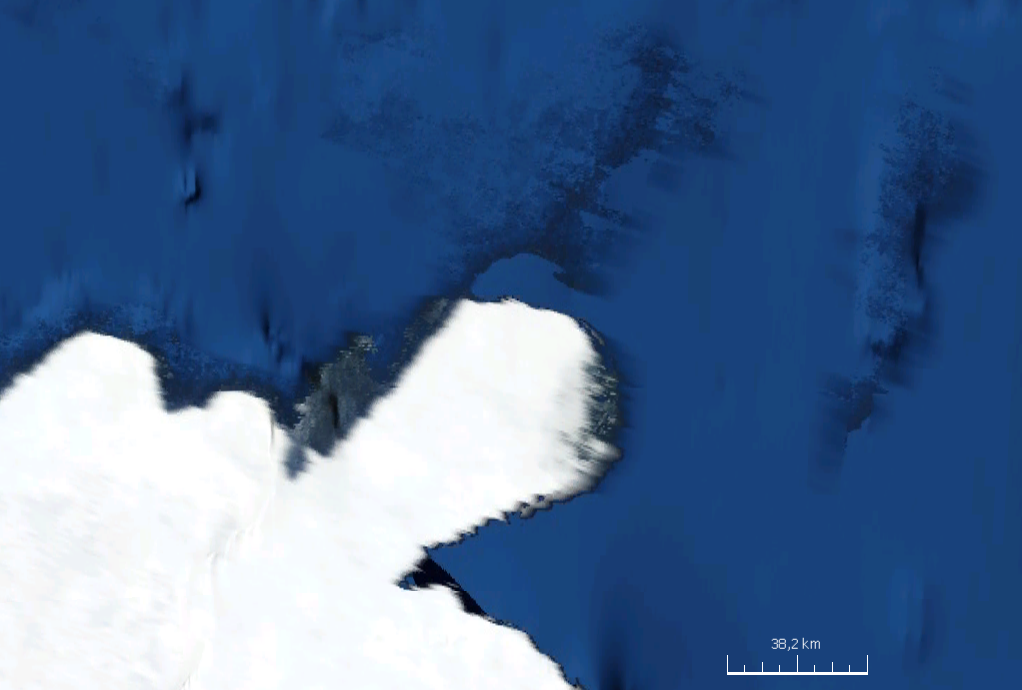 Mertz Glacier Tongue, George V Coast, East Antarctica half of which broke away in February 2010, to form a 2500 km² iceberg